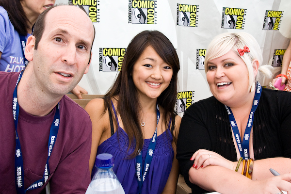 Jeff Lewis, Amy Okuda, & Robin Thorsen from the Guild